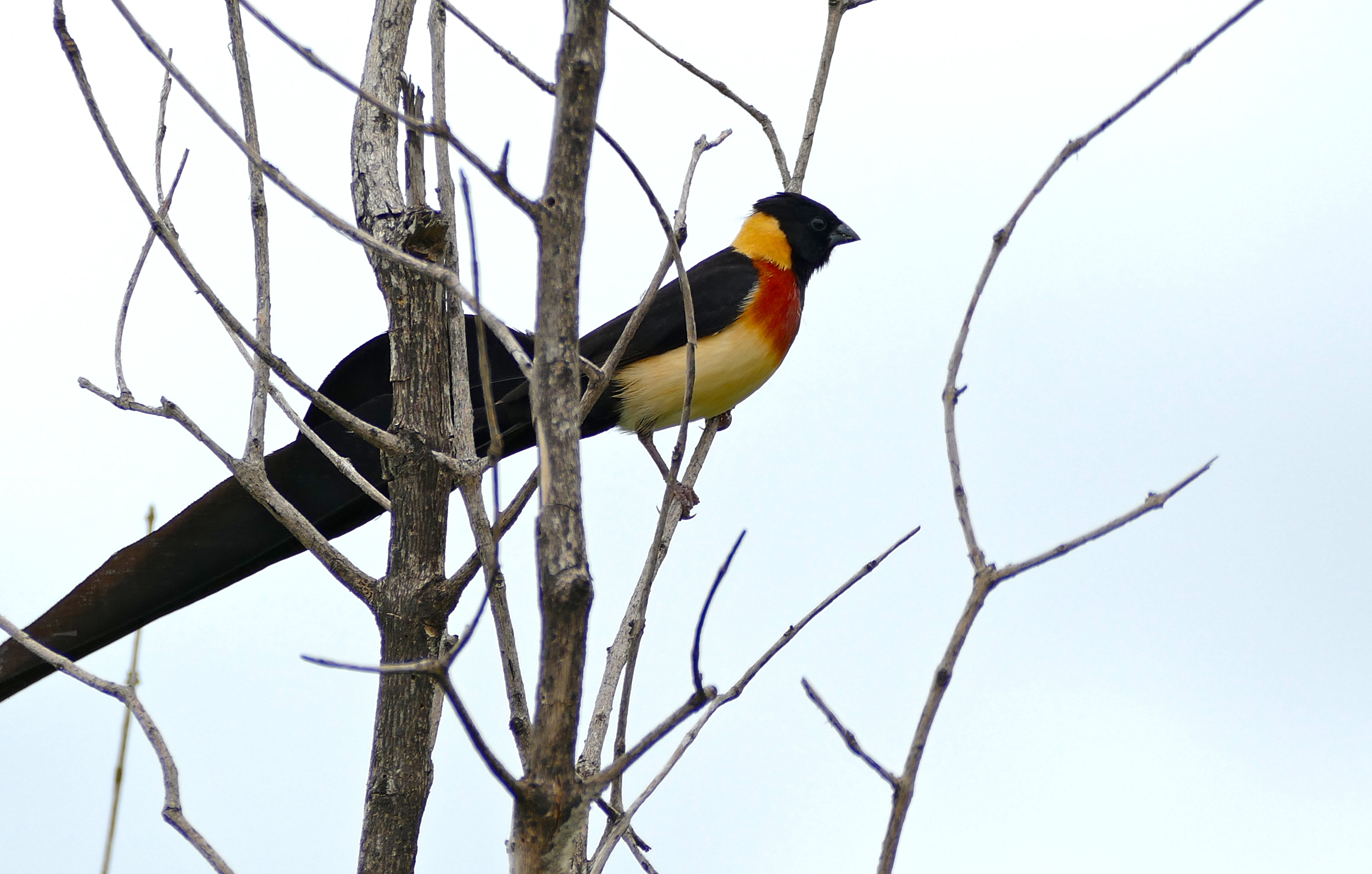 H2-2 Road East of Afsaal, Kruger NP, SOUTH AFRICA